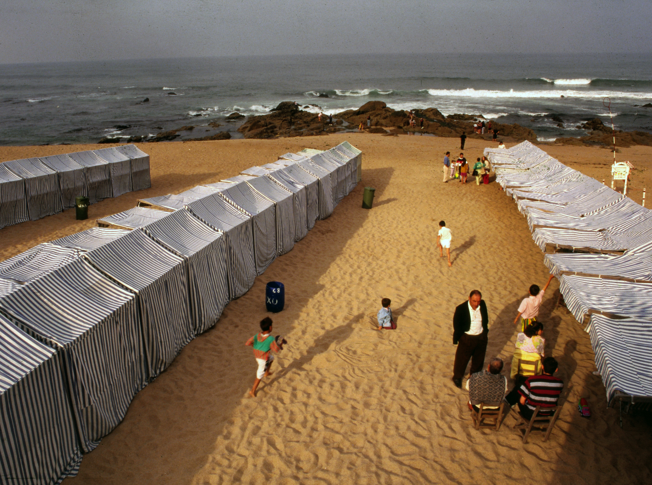 Beach with local sunbathers in Povoa De Varzim, Portugal, July 1994.